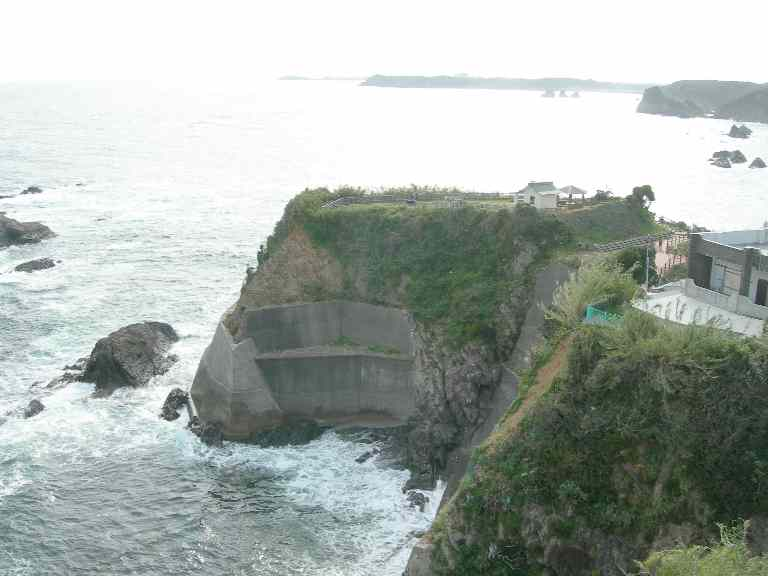 Nakiri-jou-ato was originally a place of a castle in Nakiri, Daio, Shima, Mie of Japan, which is now a small park named Hachiman-san-Koen.